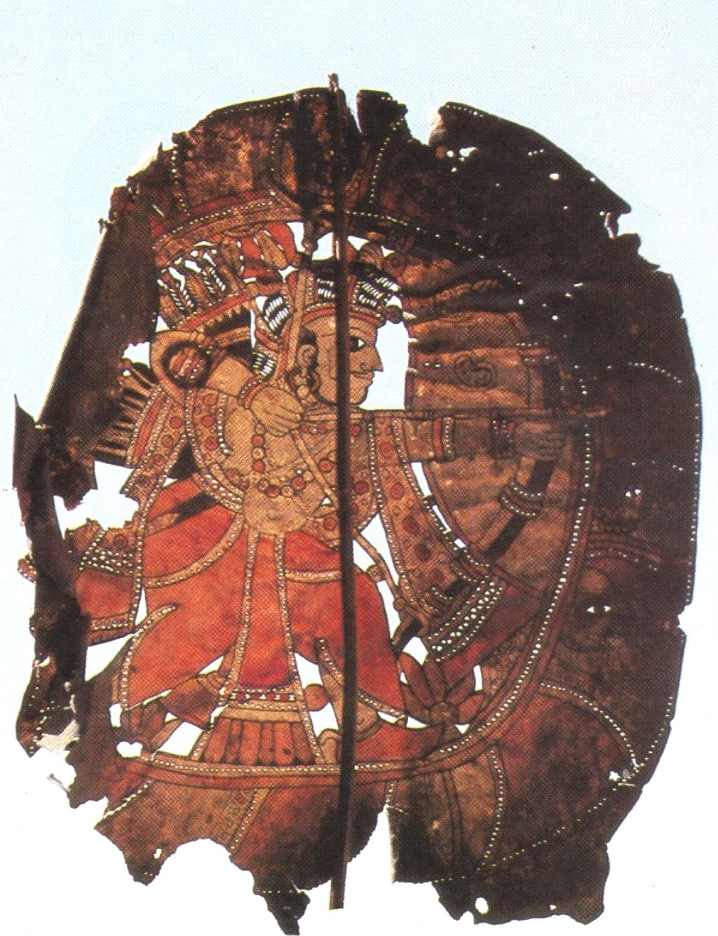 Indrajit, shadow puppet from Pinguli village, Sawantwadi, Maharashtra